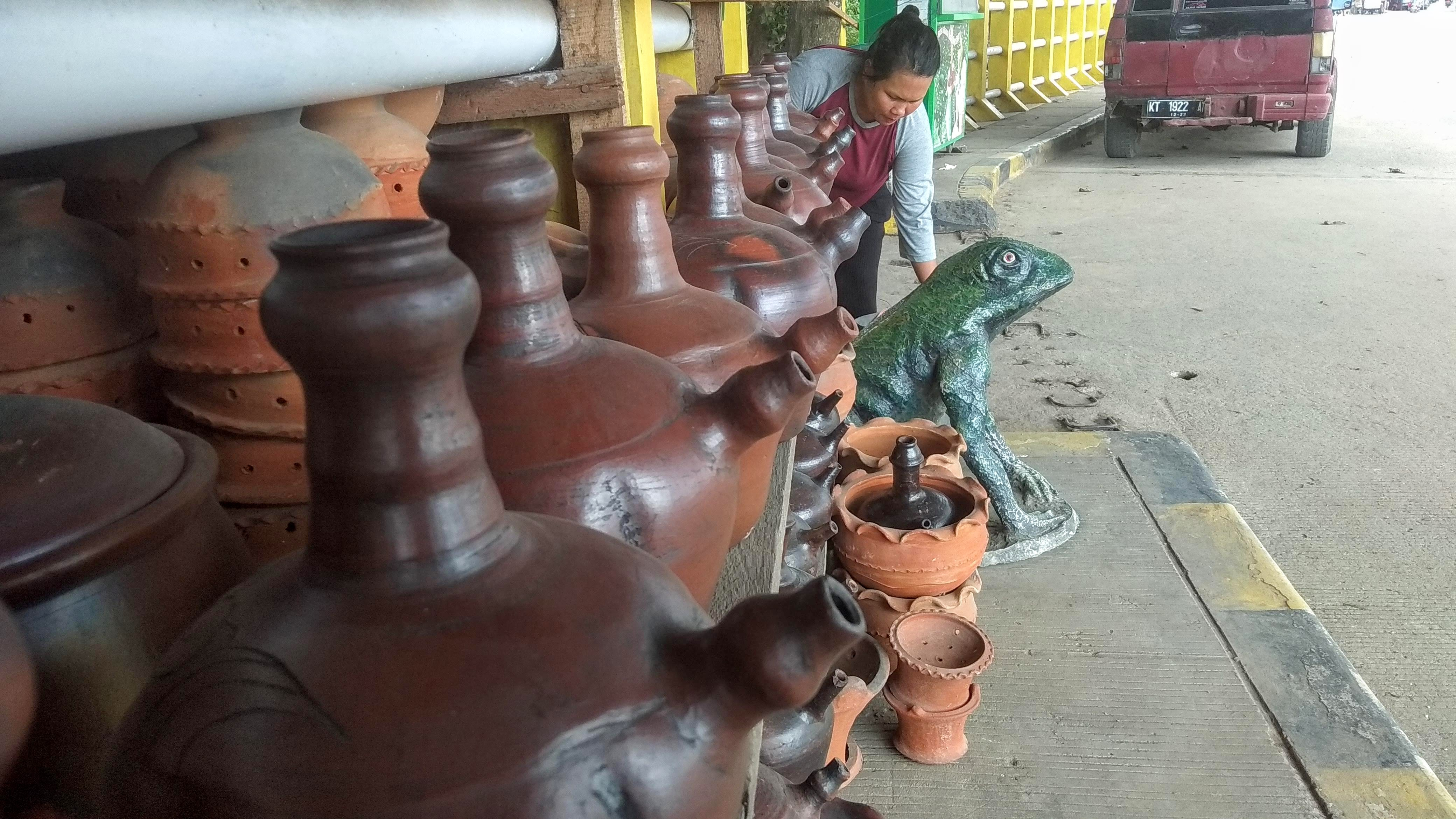 Seorang wanita membersihkan keranjinan tanah liat jualannya